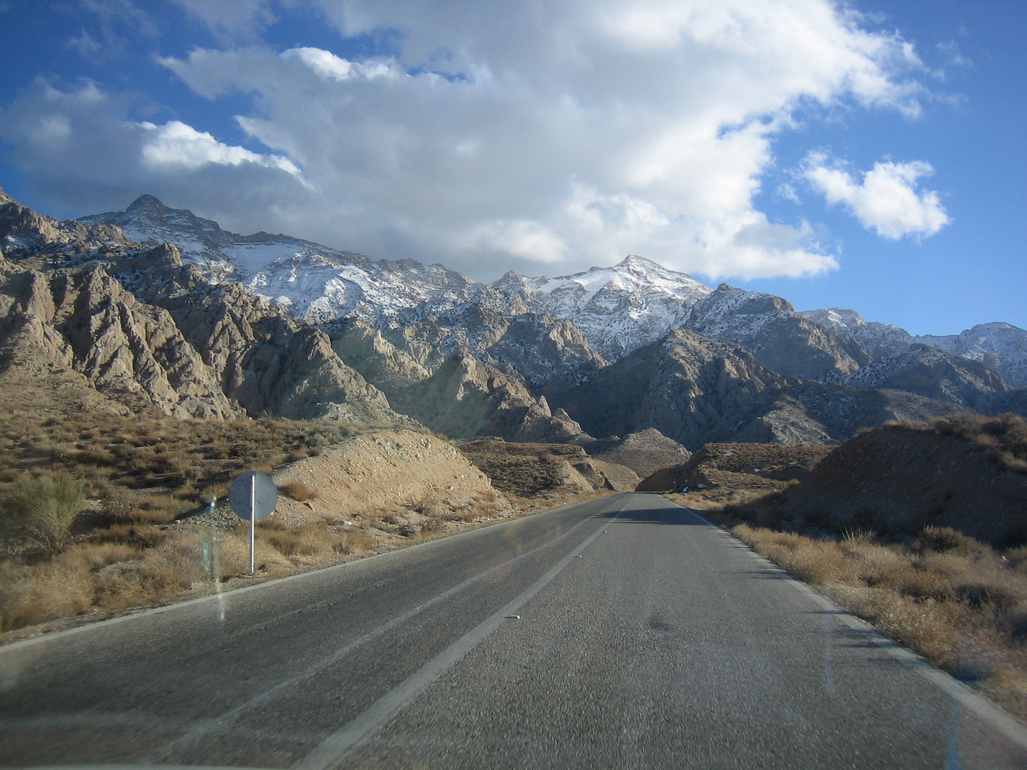 Road in Khabr National Park — in Kerman province, southern Iran.